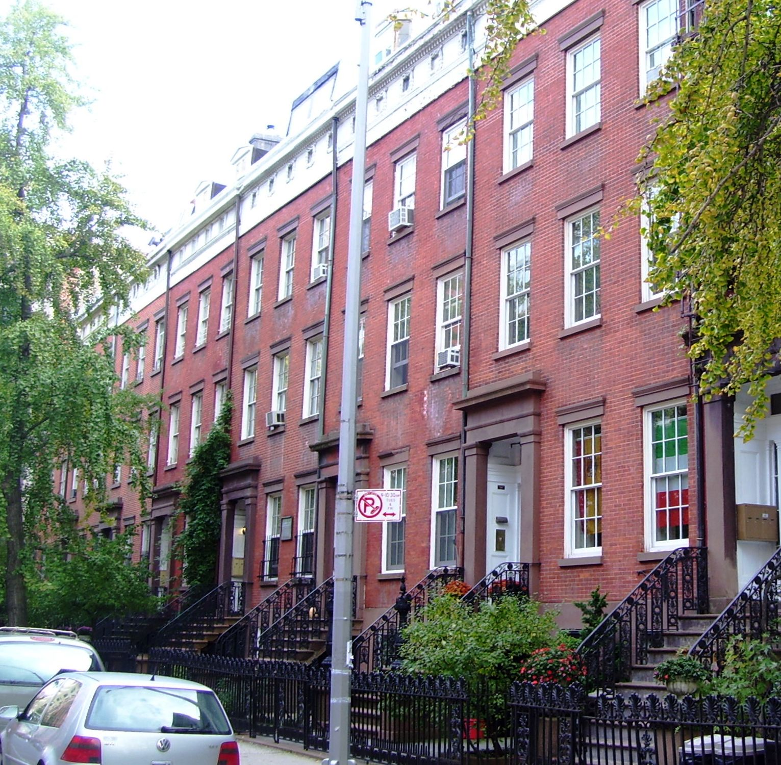 The Cushman Row, at 406-418 West 20th Street, between 9th and 10th Avenues in the Chelsea neighborhood of Manhattan, New York City, sit across from the General Theological Seminary. They were built by Don Alonzo Cushman, a dry goods merchant and friend of Clement Clarke Moore, whose estate "Chelsea" once encompassed most of the current neighborhood. Cushman became a millionaire developing the neighborhood once Moore began to sell off parts of the estate. These Greek Revival row houses were built in 1840. (source:AIA Guide to NYC 4th ed.)